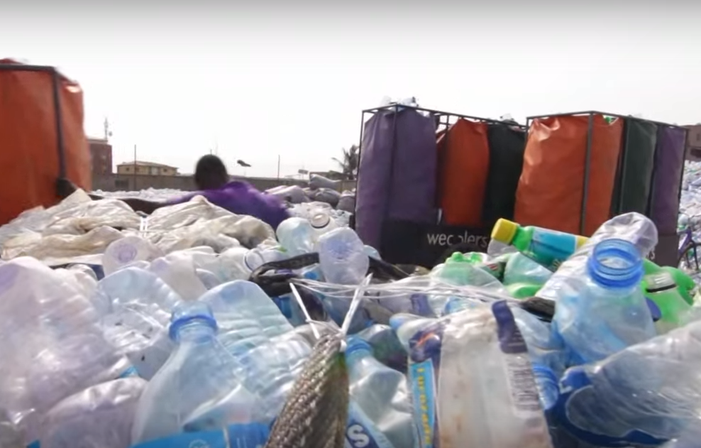 Screen grabs from youtube about Young CEO - Bilikiss Adebiyi - Recycling rubbish in Lagos by NDaniTV